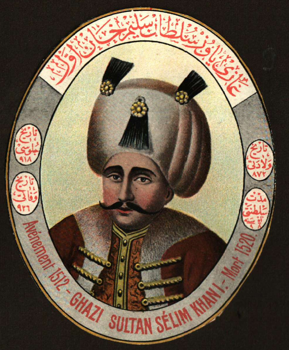 Selim I